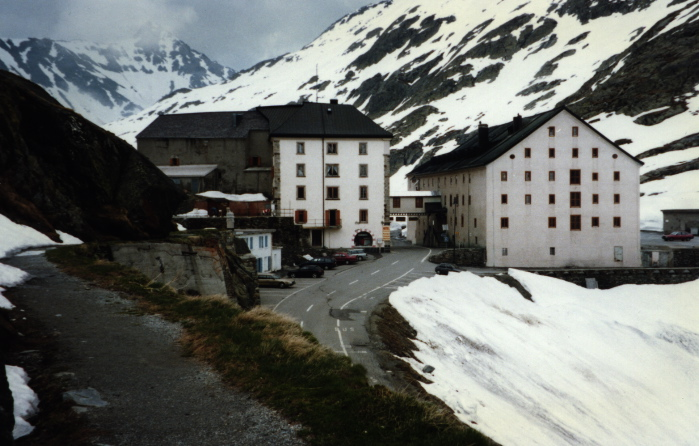 Photo of Great St Bernard Pass